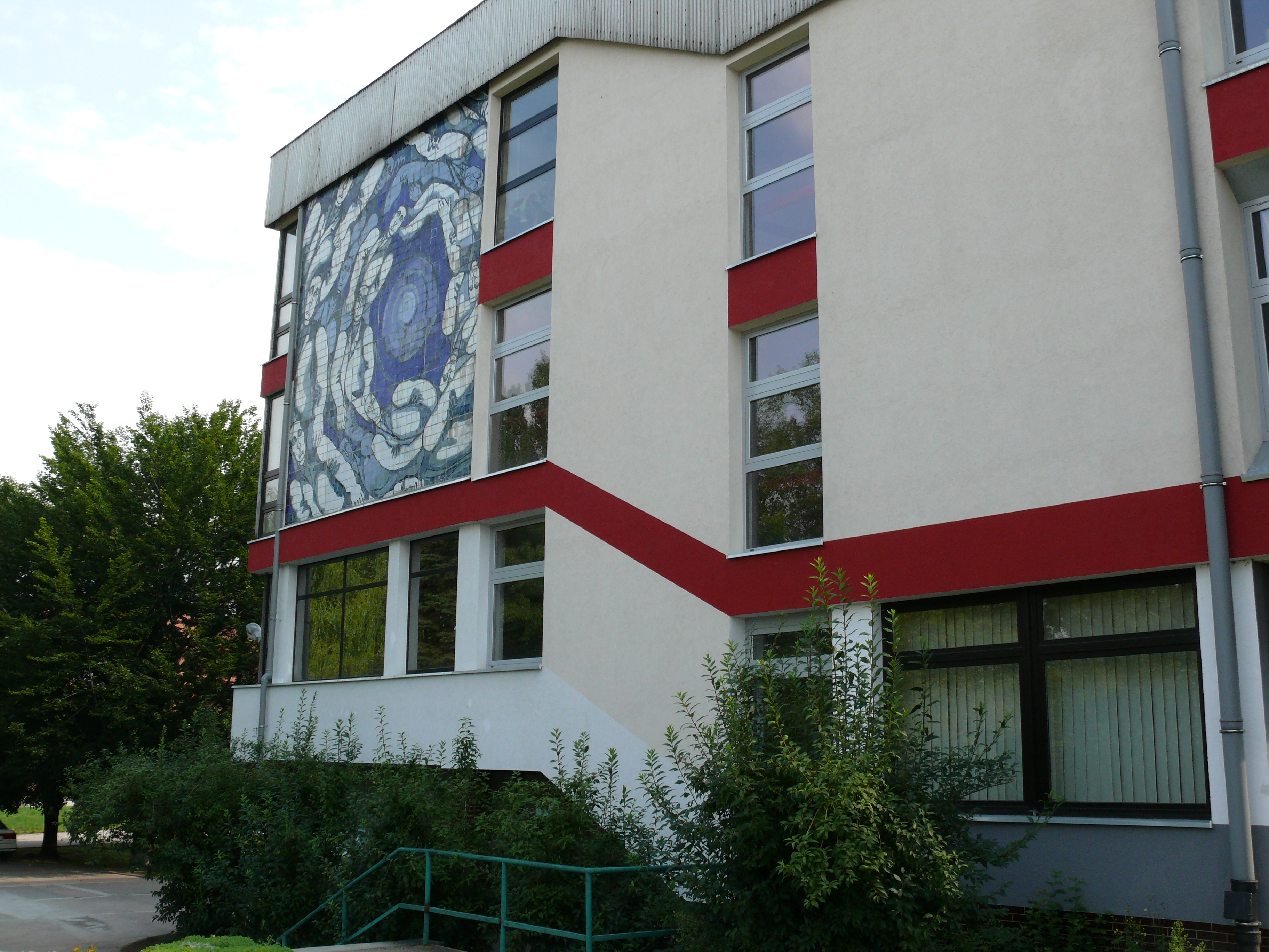 The Mathematical Institute of Wroclaw University; the mosaic by Anna Szpakowska-Kujawska